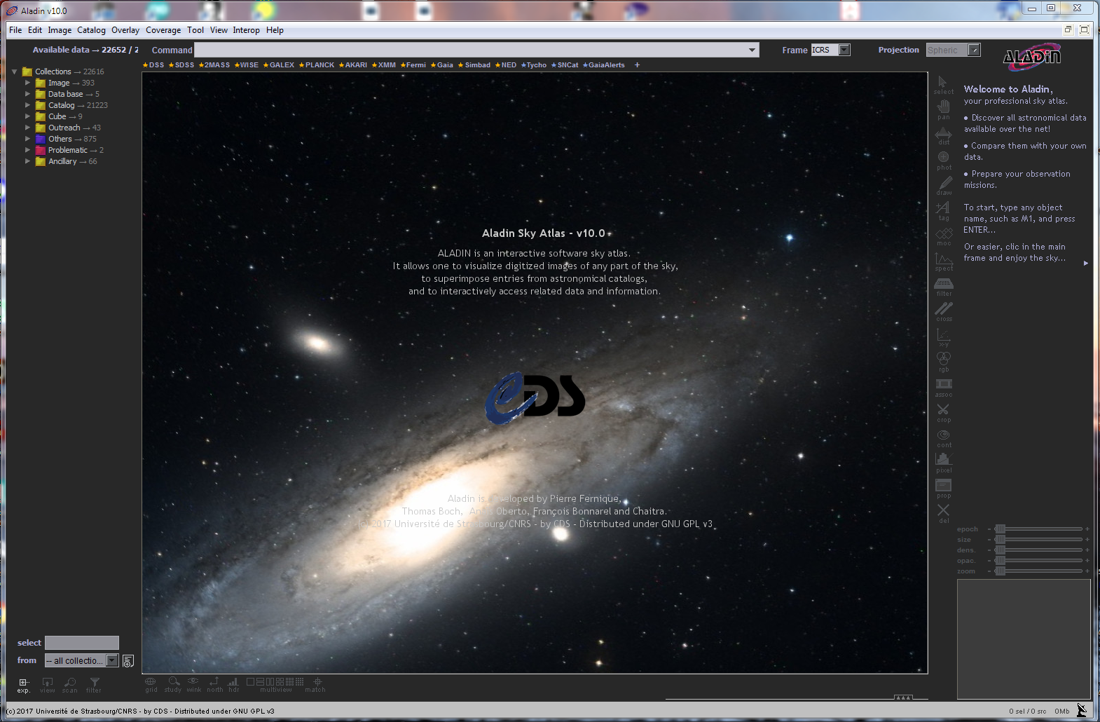 This image shows Version 10 of the user interface, Current in January 2019